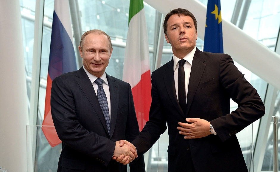 Joint Press-Conference of President of Russia Vladimir Putin and President of the Council of Ministers of Italy Matteo Renczi